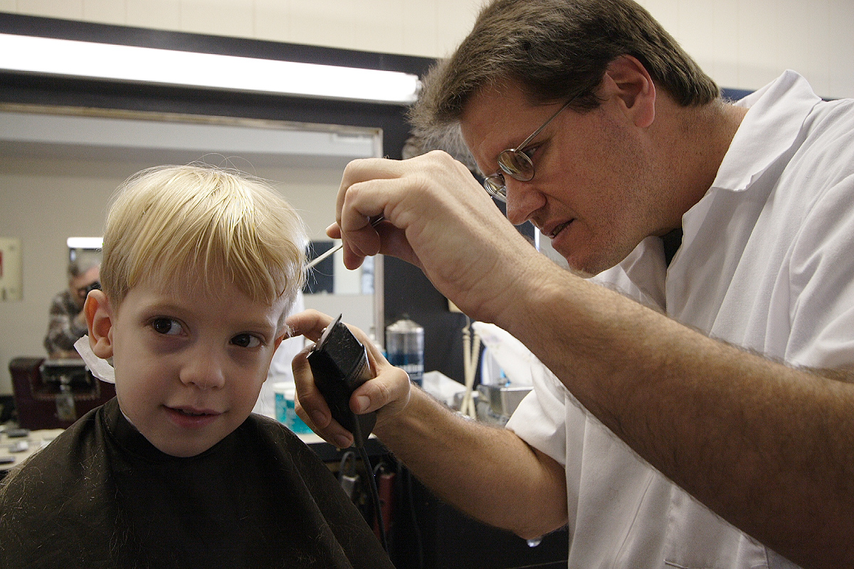 "Boy Meets Barber" O'Fallon, Illinois, Barbershop, 2006.